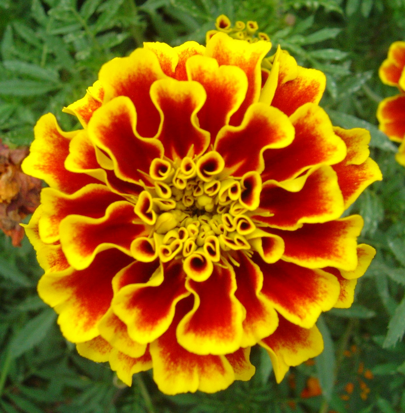 Beautiful Indian Tagetes flower from the Botanical Garden of Bangalore.